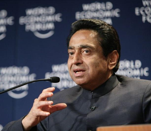 DAVOS/SWITZERLAND, 27JAN07 -Kamal Nath, Minister of Economy of India Moderated by John K. Defterios, Group Vice-President, Content and Anchor, United Kingdom, FBC Media, United Kingdom captured during the session 'Frozen Trade Talks and the Need for Progress' at the Annual Meeting 2007 of the World Economic Forum in Davos, Switzerland, January 27, 2007. Copyright by World Economic Forum by Annette Boutellier